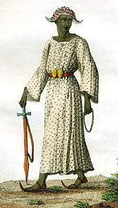 Error in the file title: this image does NOT present Badi VII, the king of Sennar, but a provincial king in Fazughli.